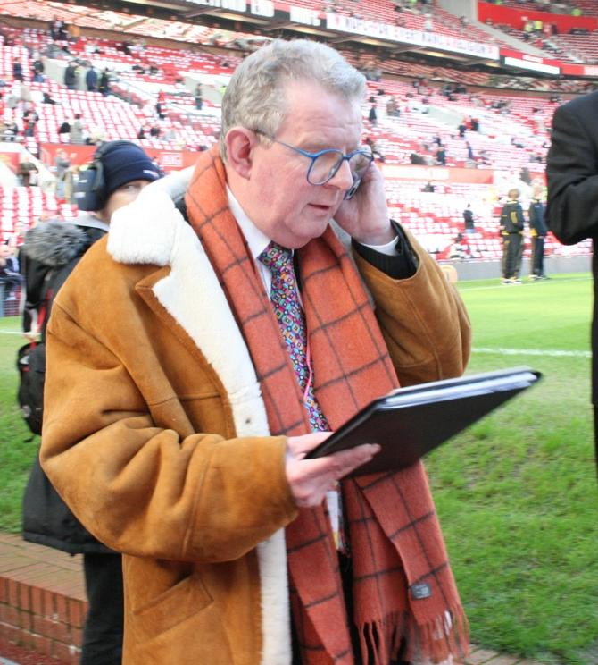 English football commentator John Motson